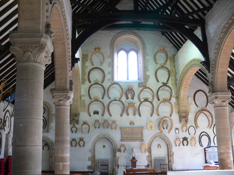 Part of the collection of ceremonial horseshoes in the Norman Castle at Oakham, Rutland, UK. Traditionally, any peer of the realm or monarch visiting Oakham for the first time must forfeit a horsehoe. Originally these were real horseshoes; later it became the custom to have a special, elaborate (often outsize) shoe made specially for the presentation ceremony.